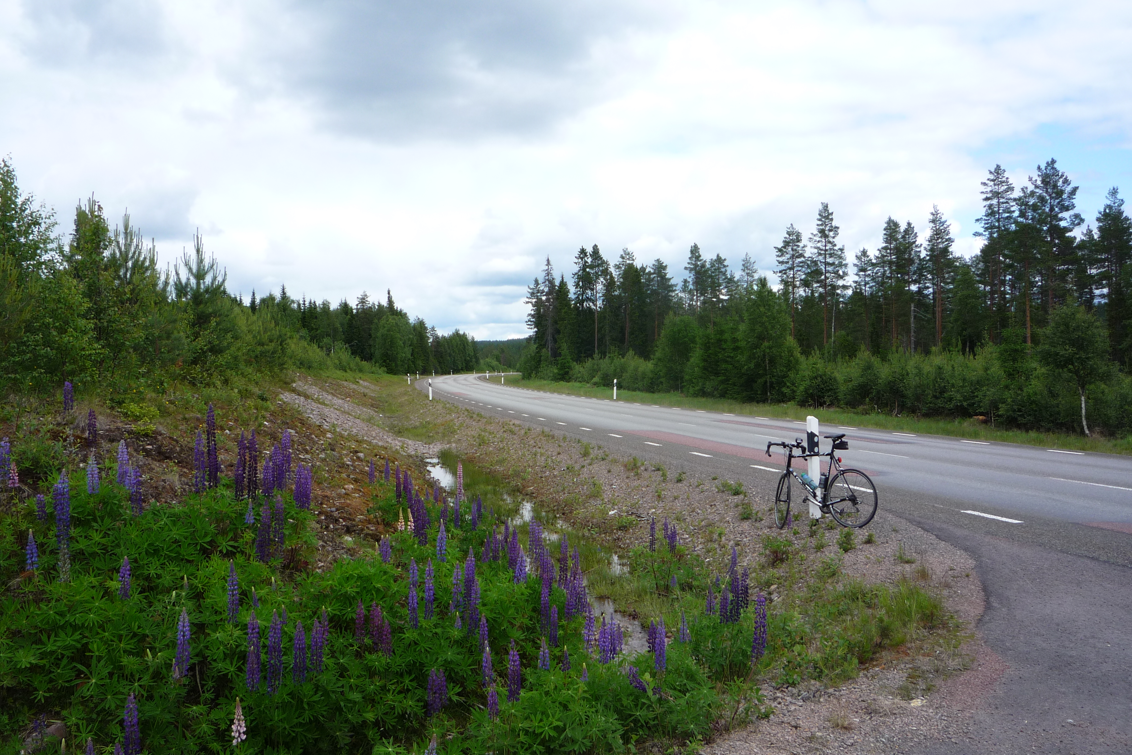 European Road 45 in Sweden between Värnäs and Malung